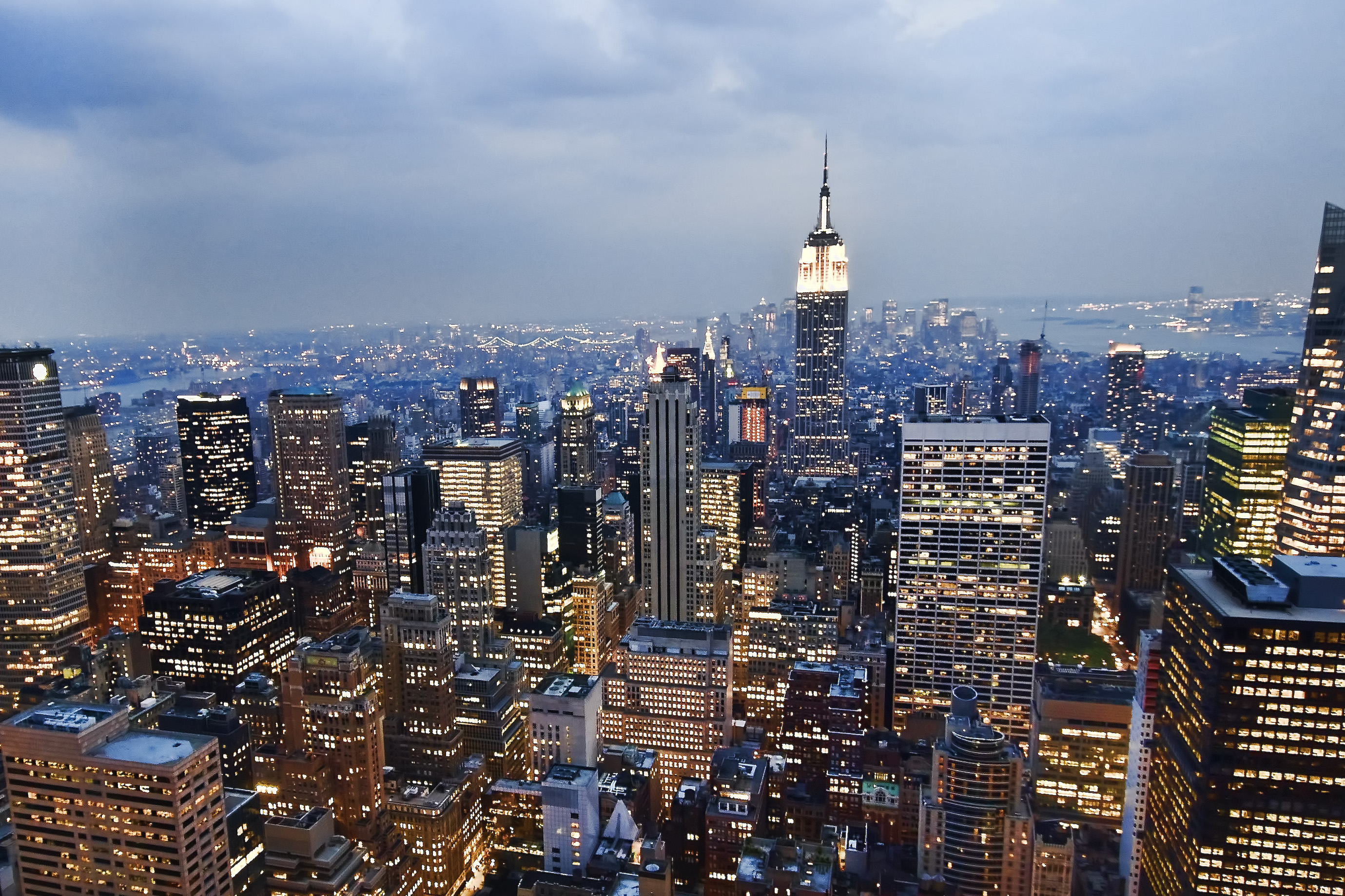 View of the Empire State Building from the Rockefeller Center observation deck, New York City, August 2009.